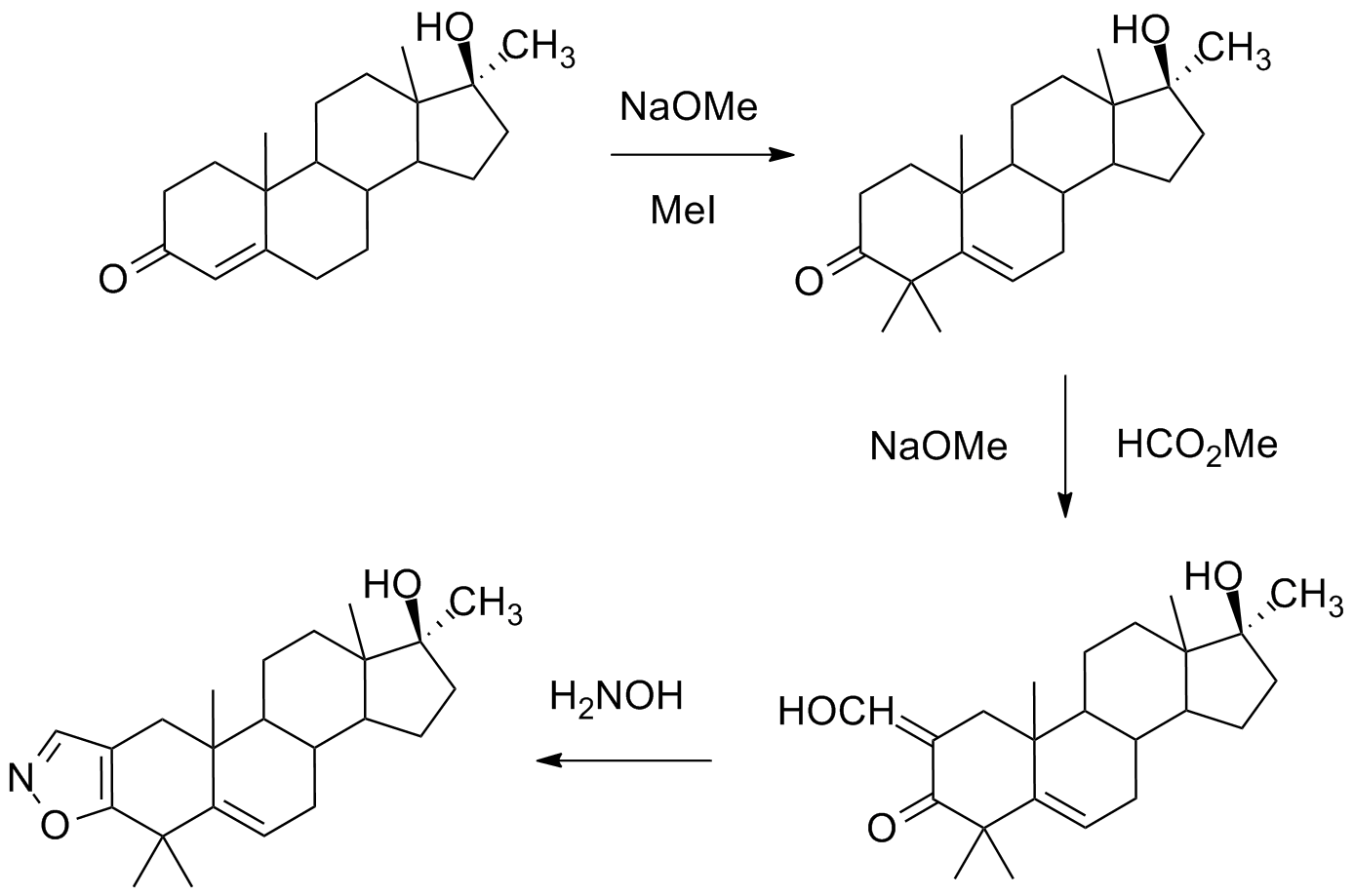 Gordon O. Potts, Sterling Drug Inc. U.S. Patent 3,966,926 (1976).